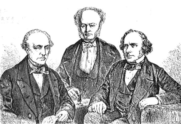 From left: William Lewis, George Walker and Augustus Mongredien, English chess players